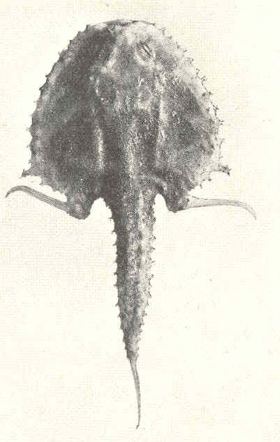 Halicmetus ruber Alcock. From station 5123. Dorsal view Subject: Ogcocephalidae, Halicmetus Tag: Fish